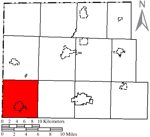 Made by the US Census and modified by myself